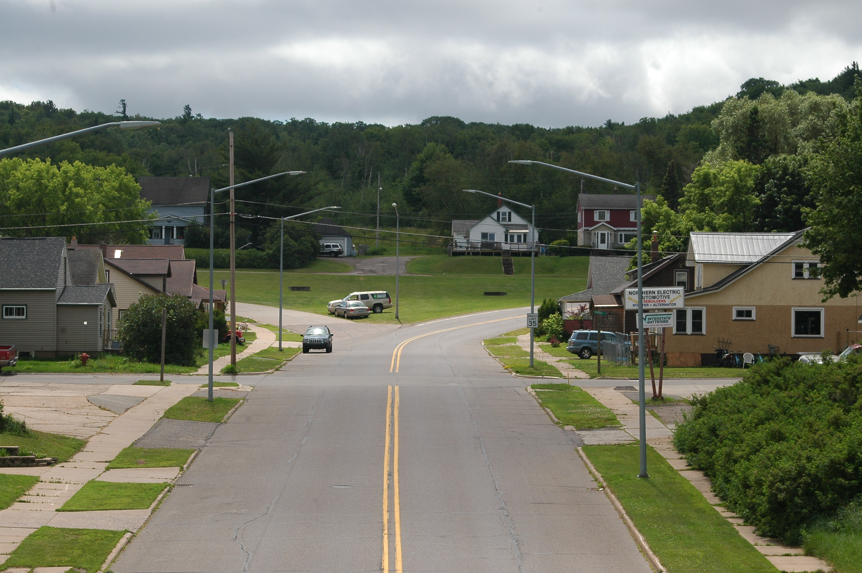 Looking southward at the Y in Business M-28 along Silver Street in Negaunee, Michigan